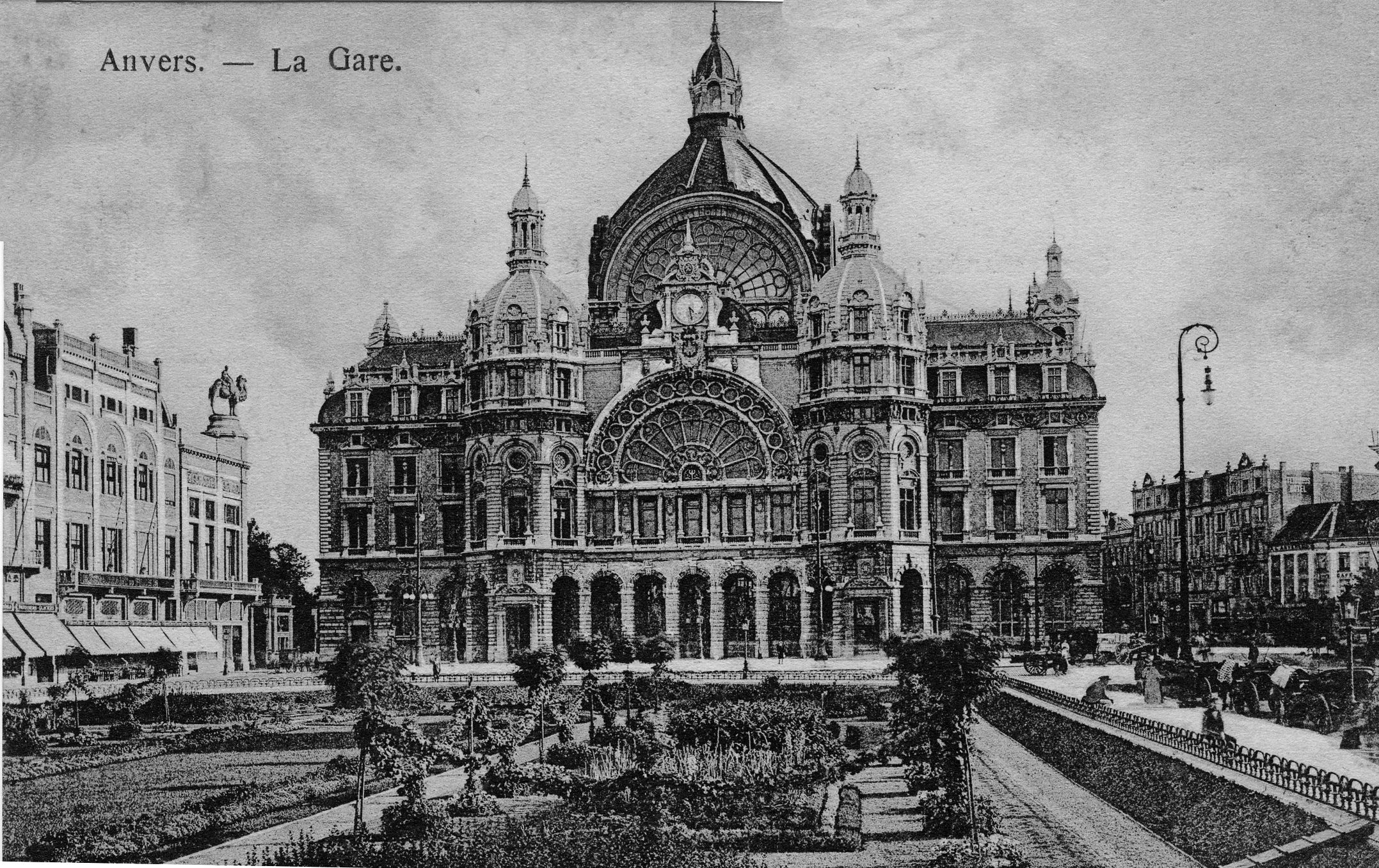 Antwerp central station around 1910. Note the elaborate garden on the Queen Astrid square.